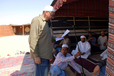 Yusef Maisonet, Imam of Masjid AsSalaam in Mobile, Alabama giving a Friday sermon in the desert between Abu Dhabi and Al Ain UAE in 2007.